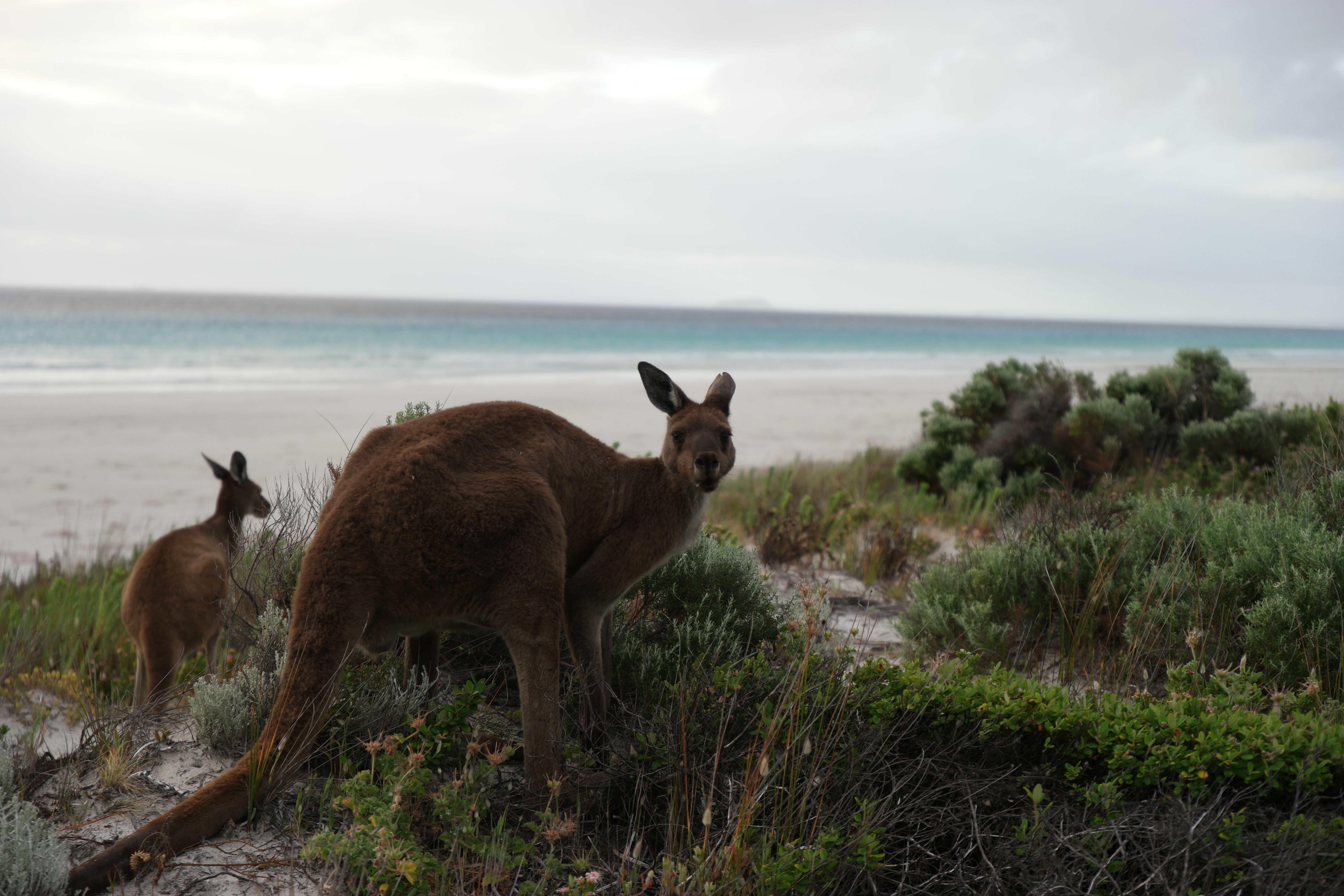 Cape Le Grand National Park, Western Australia, Australia.